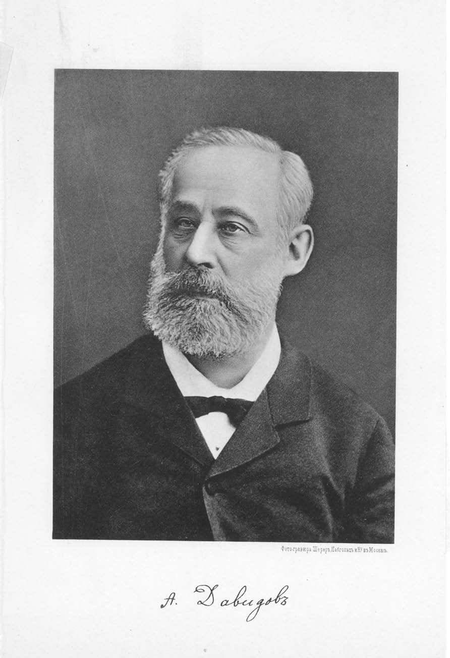 Portrait of August Davidov (1823-1885), Russian mathematician